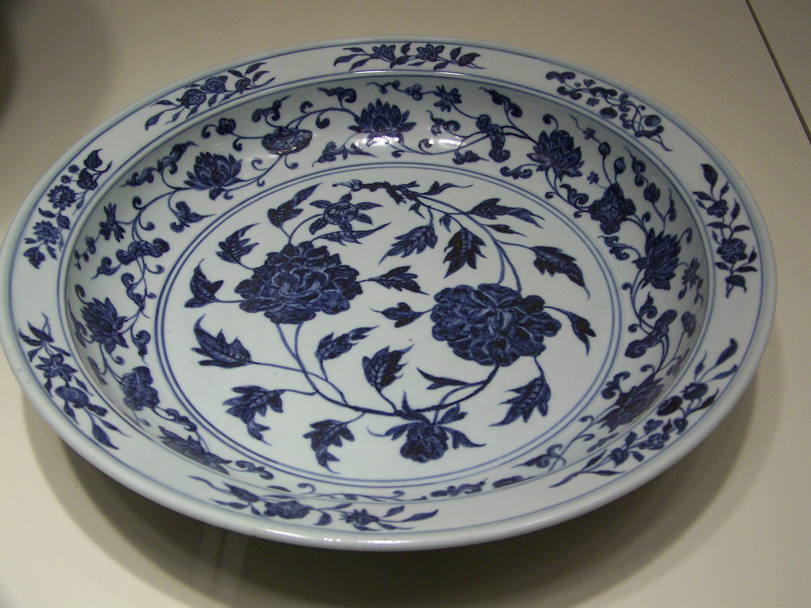 Plate, 1368-1644. Porcelain, underglaze, cobalt-blue decoration. Brooklyn Museum, Gift of Samuel P. Avery, by exchange, 51.85. Wikipedia Loves Art at the Brooklyn Museum This photo of item # [1] at the Brooklyn Museum was contributed under the team name "Opal_Art_Seekers_4" as part of the Wikipedia Loves Art project in February 2009. Brooklyn Museum The original photograph on Flickr was taken by KaDeWeGirl—please add a comment to the original Flickr page whenever a use has been made on Wikipedia or another project. Project galleries on Flickr: this institution, this team